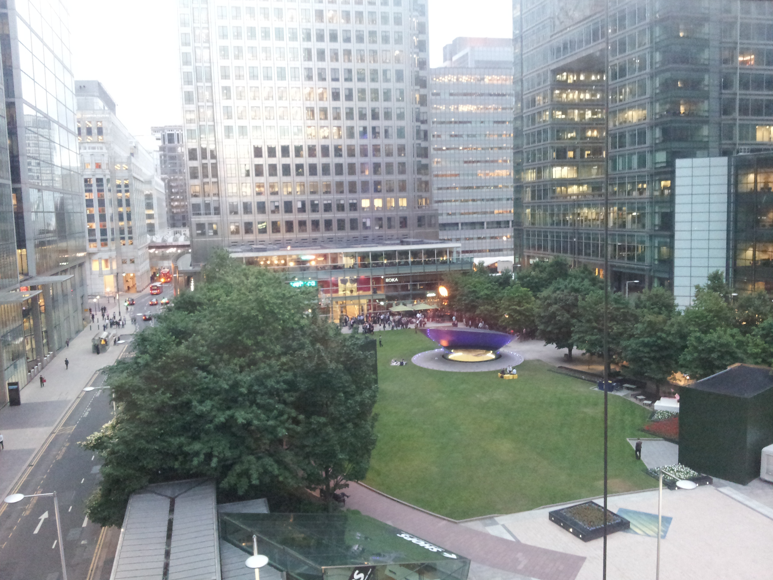 A view of Canary Wharf from Plateau bar.